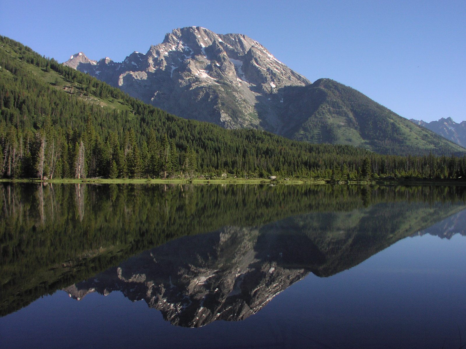 String Lake in Grand Teton National Park, Wyoming, USA